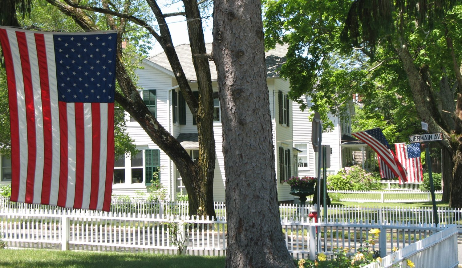 Residential street scene in Sag Harbor. Photo by poster in June 2007.